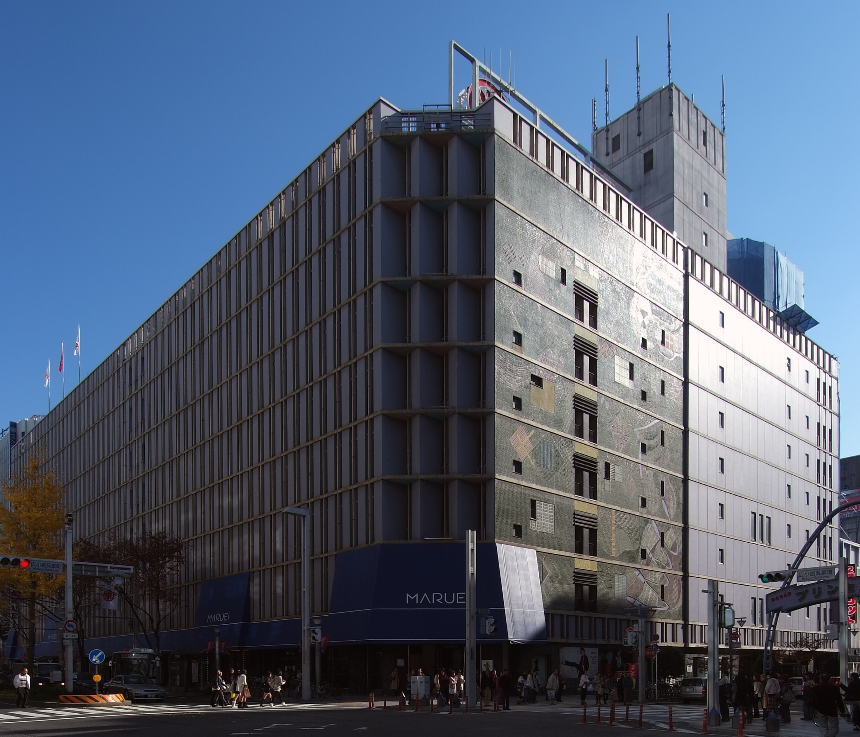 MARUEI DEPARTMENT STORE, at Naka-ku Nagoya Japan, design by Togo Murano in 1953.